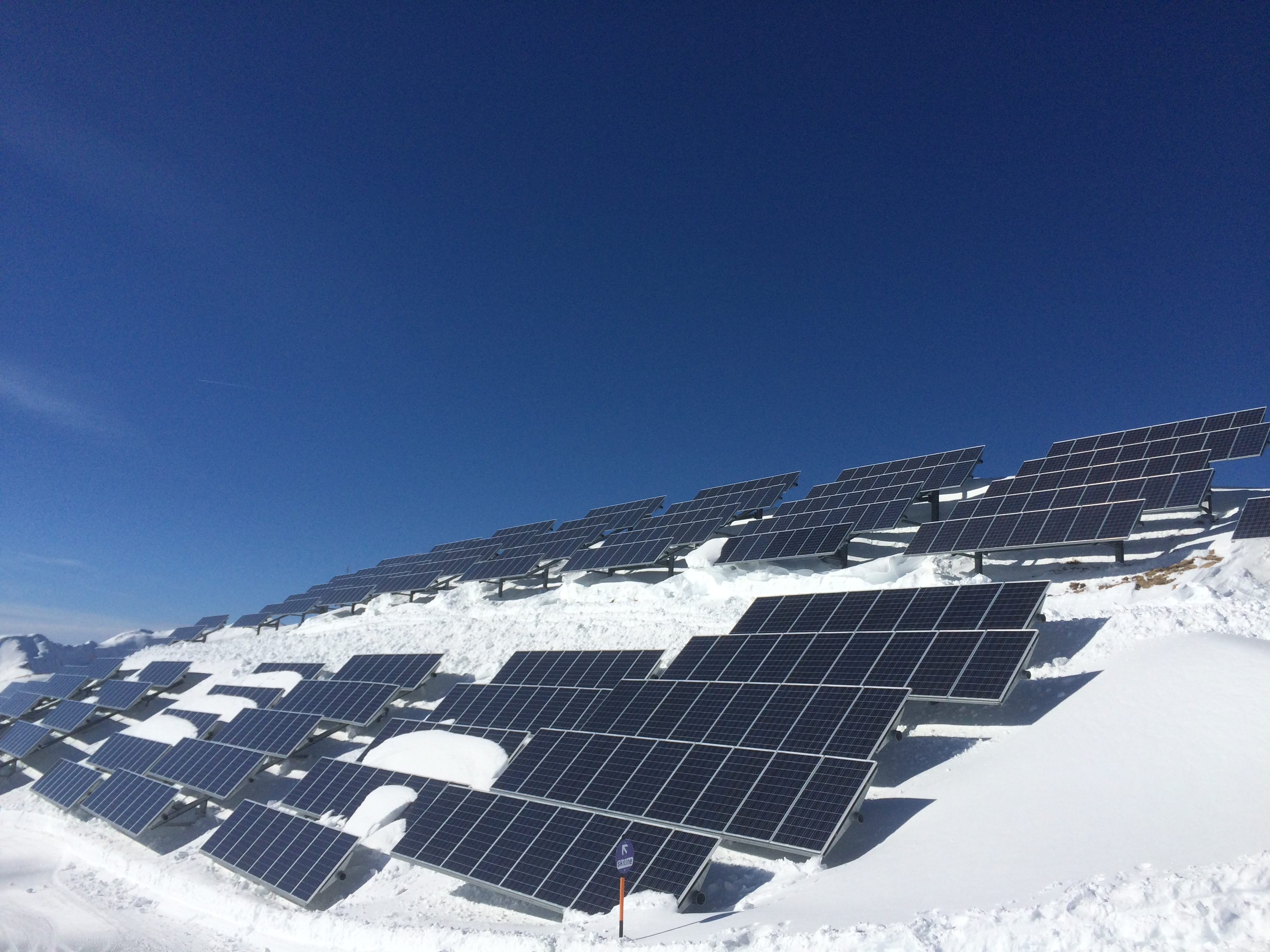 This picture of a solar pv park was taken at the skiing resort "Wildkogel-Arena Neukirchen-Bramberg" in the Austrian alps.